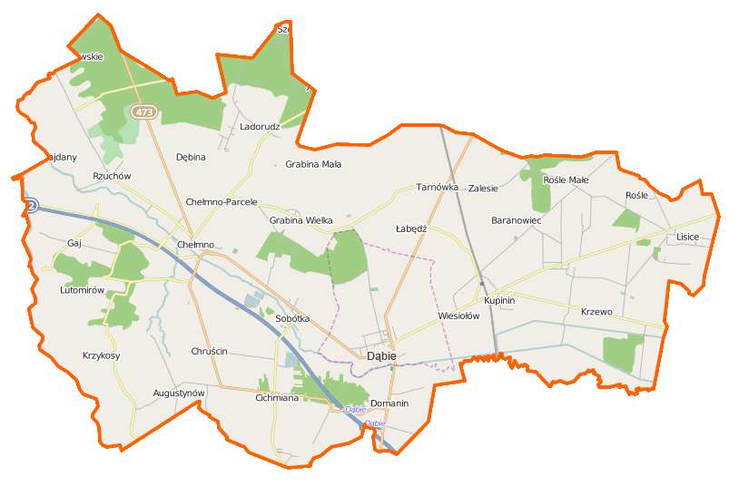 Map of Gmina Dąbie, Poland This map of Dąbie (gmina w województwie wielkopolskim) was created from OpenStreetMap project data, collected by the community. This map may be incomplete, and may contain errors. Don't rely solely on it for navigation. Border coordinates52.169718.6778←↕→18.957352.0563